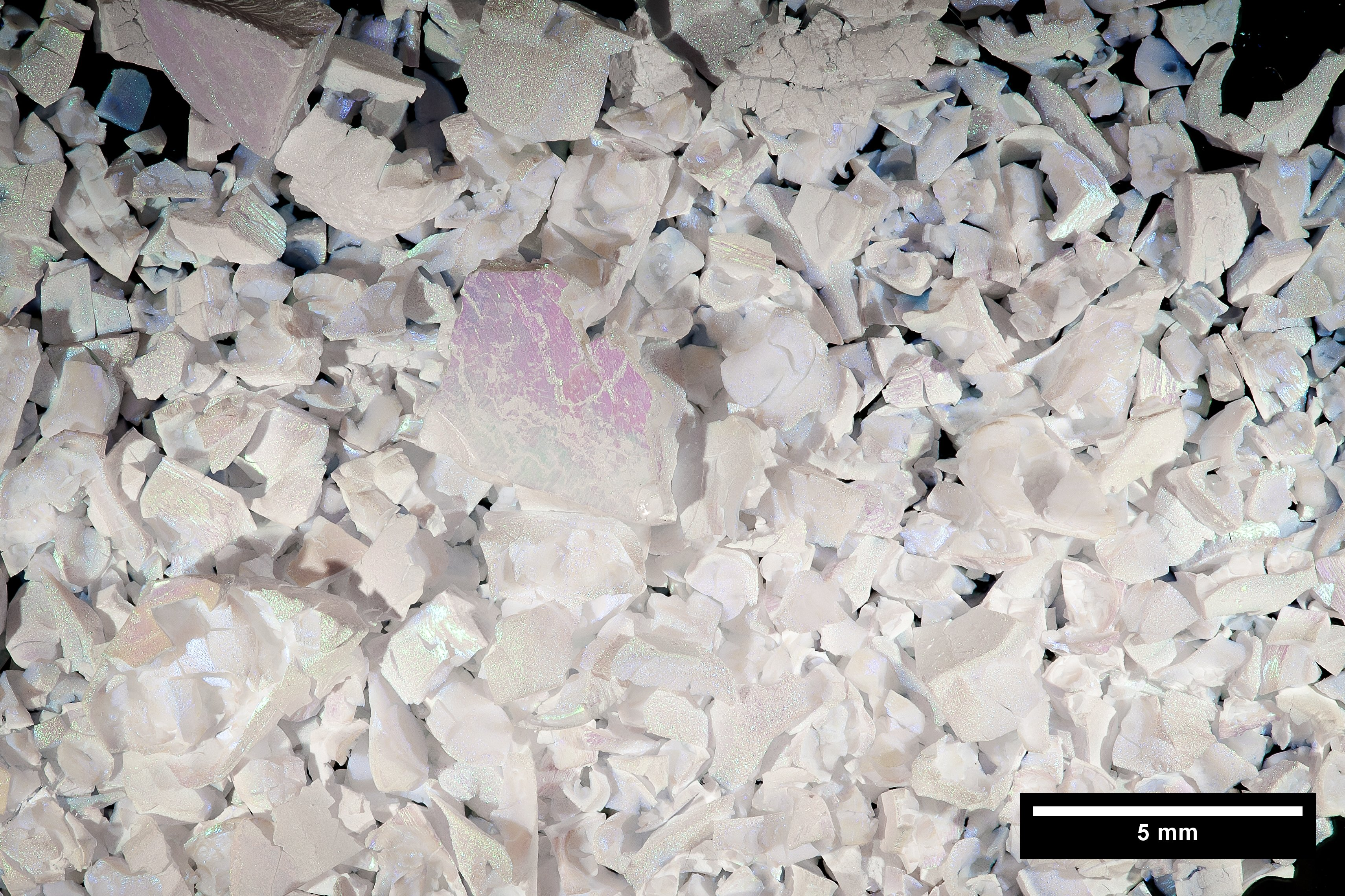 Synthetic opal. The image is composed of 12 single shots, stacked with CombineZP.